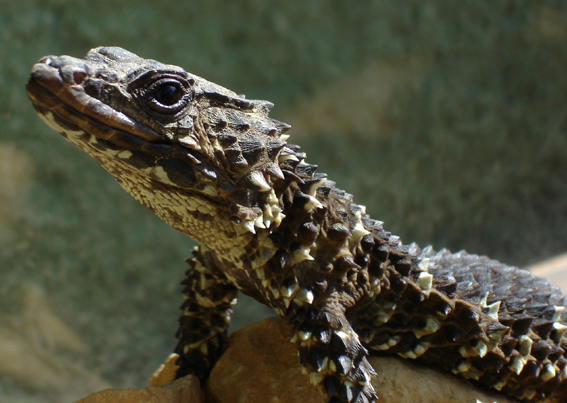 Cordylus breyeri, uploaded to Flickr under Creative Commons 2.0, description page here.